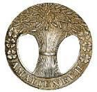 Schulnadel Landfrauenschule und Lehrgut Amalienruh bei Meiningen in Thüringen 1904-1920 (Sülzfeld) Verwalterin Freiin Elisabeth von Pawel-Rammingen. Dem Reifensteiner Verband offiziell ab 1916 angeschlossen. Fotografin Lücke